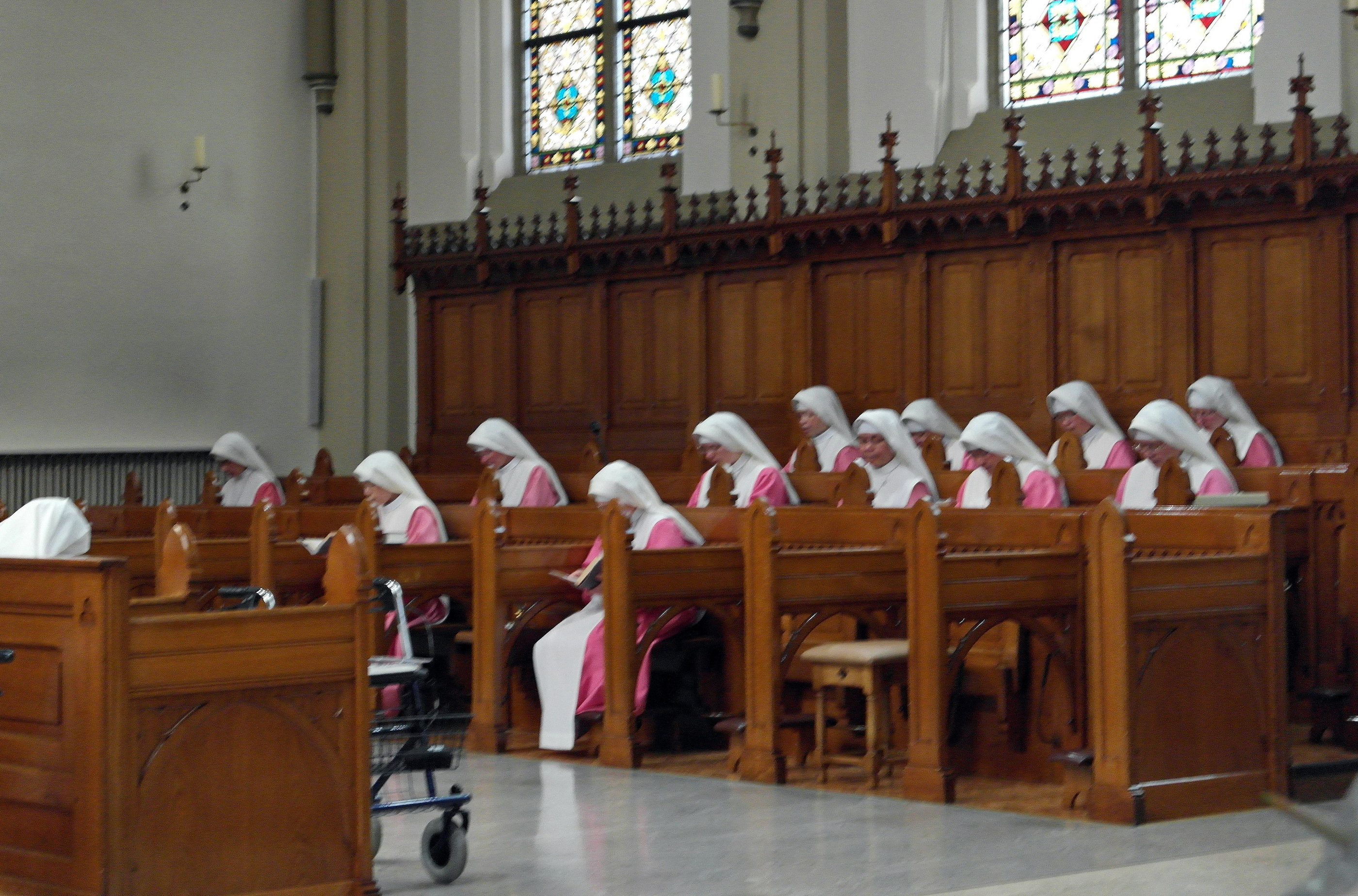 View from the devotional chapel into the private chapel of the Monastery of the Holy Ghost in Steyl (Venlo), the Netherlands. This is the mother house of the RC Congregation of the Servants of the Holy Spirit of Perpetual Adoration (Servae Spiritus Sancti de Adoratione Perpetua; SSpSAP). The devotional chapel is open to the public and allows for a view into the private chapel, where the Holy Sacrament is worshipped day and night by the "Pink Sisters".